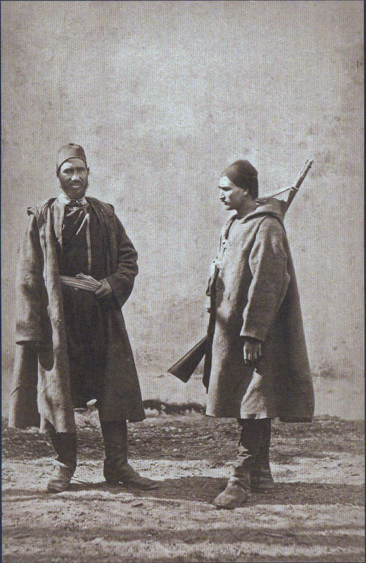 Bulgarian volunteer convoys a captured Turkish officer.